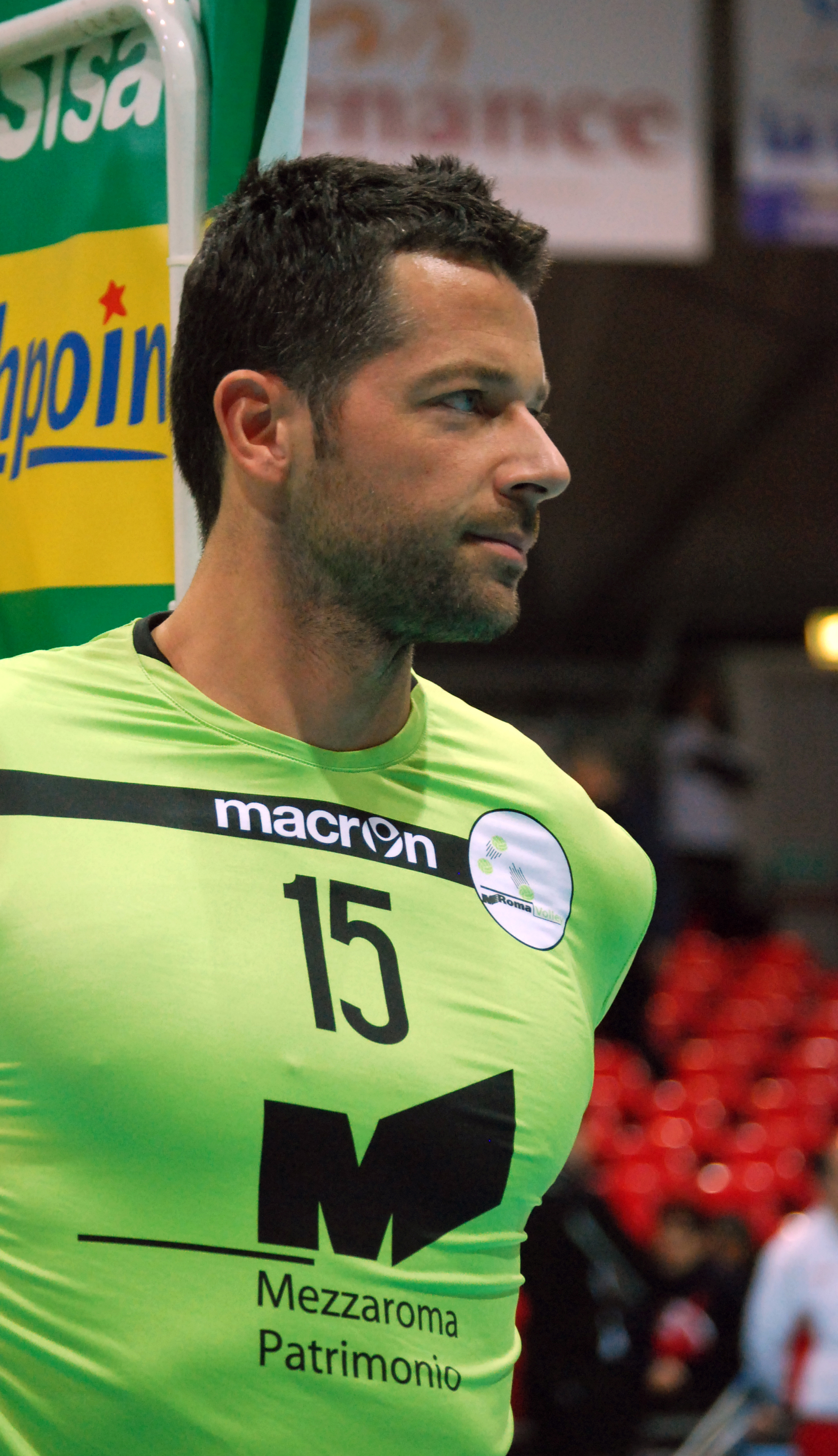 I took this pic during a volleyball match in Piacenza.